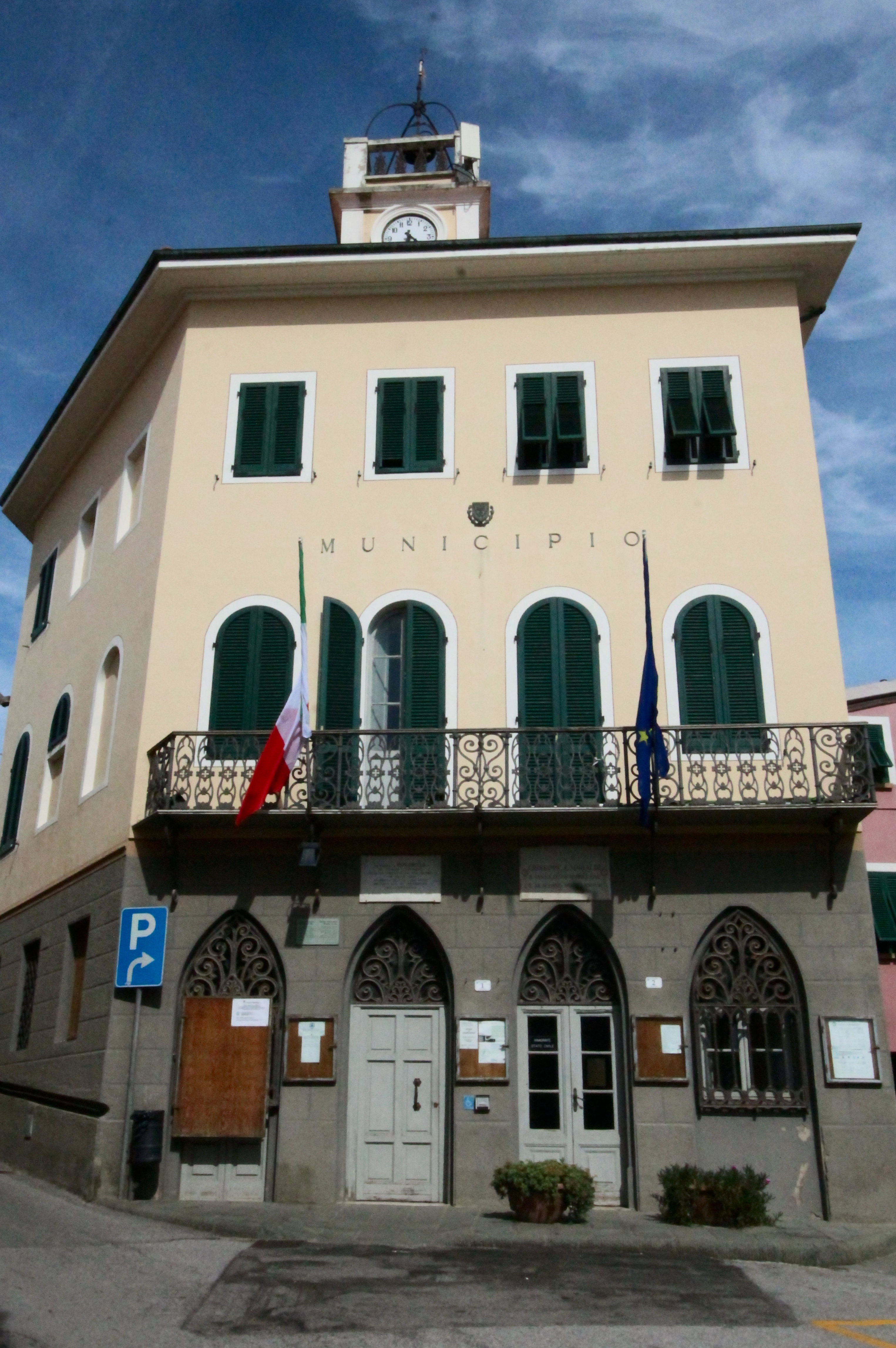 Town hall (Municipio) Palazzo Comunale, Riparbella, Province of Pisa, Tuscany, Italy